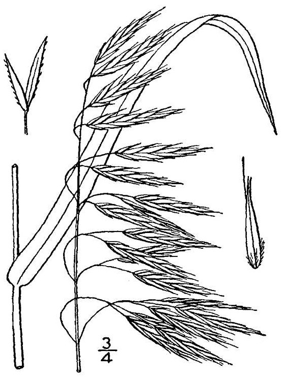 Bromus ciliatus from Britton, N.L., and A. Brown. 1913. An illustrated flora of the northern United States, Canada and the British Possessions. Vol. 1: 276. Courtesy of Kentucky Native Plant Society.